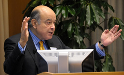 Dr. Adel Mahmoud updates the ACD on the biosafety lab at Boston University